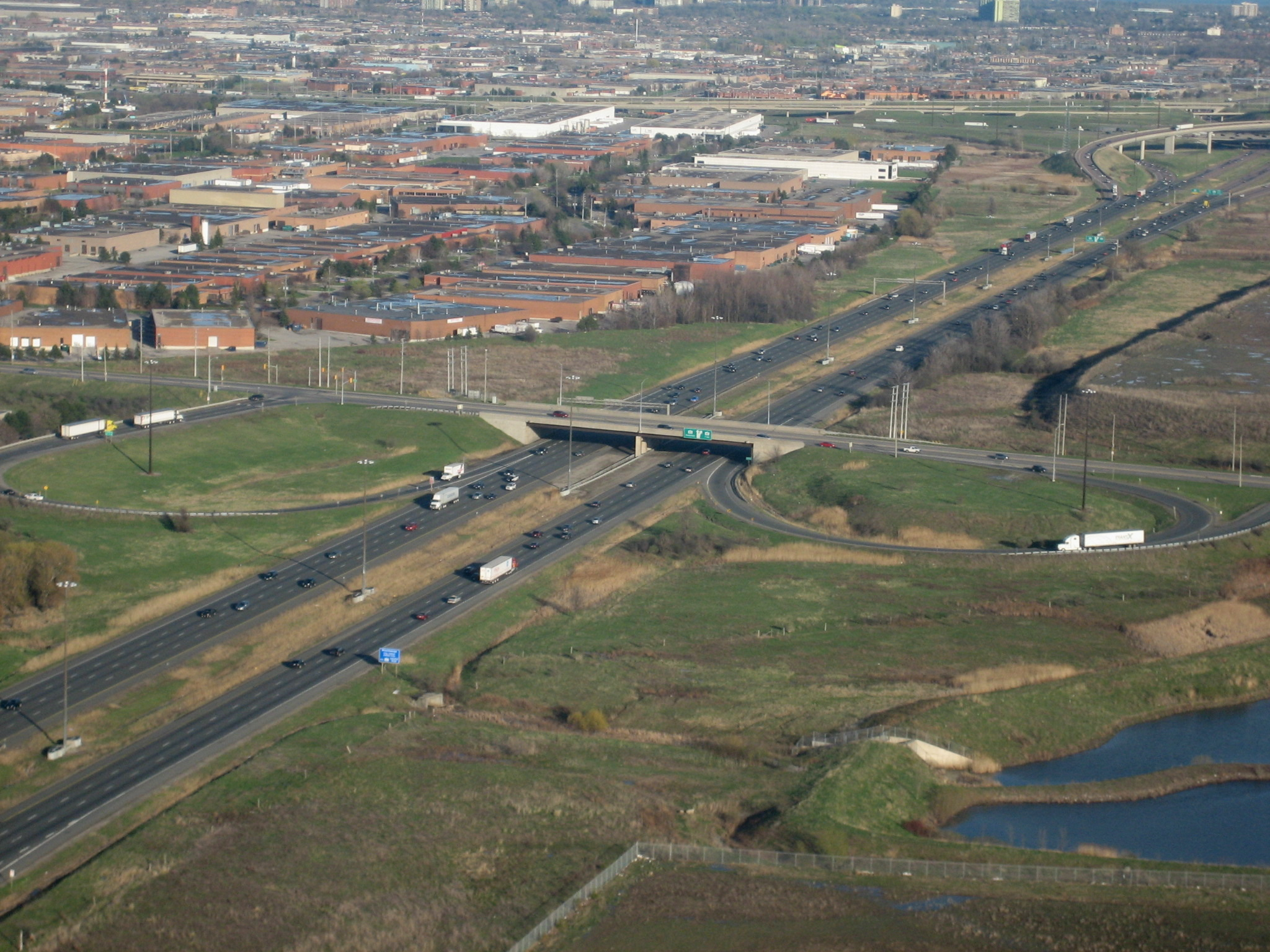 Highway 410 (Ontario) where it meets Courtney Park